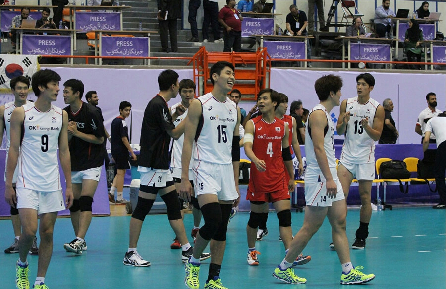 Kwak Seung-suk (9) - Ji Tae-hwan (15) - Jeong Min-su (4) - Moon Sung-min (13)